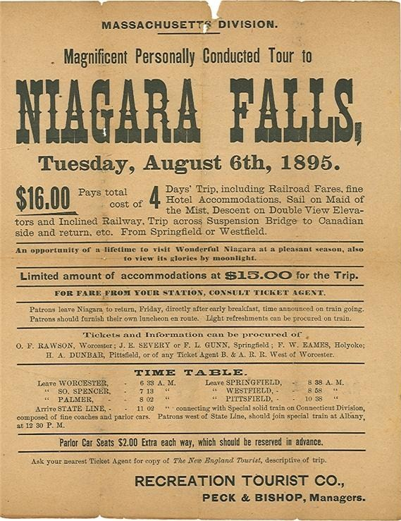 Advertising broadside for trip to Niagara Falls from Massachusetts. eBay store Web page states: "Niagara Falls - 1895 Tour Broadside w Timetable / Lots of interesting information. / Size is 8.5 X 11 inches. / Printed on a light weight paper.